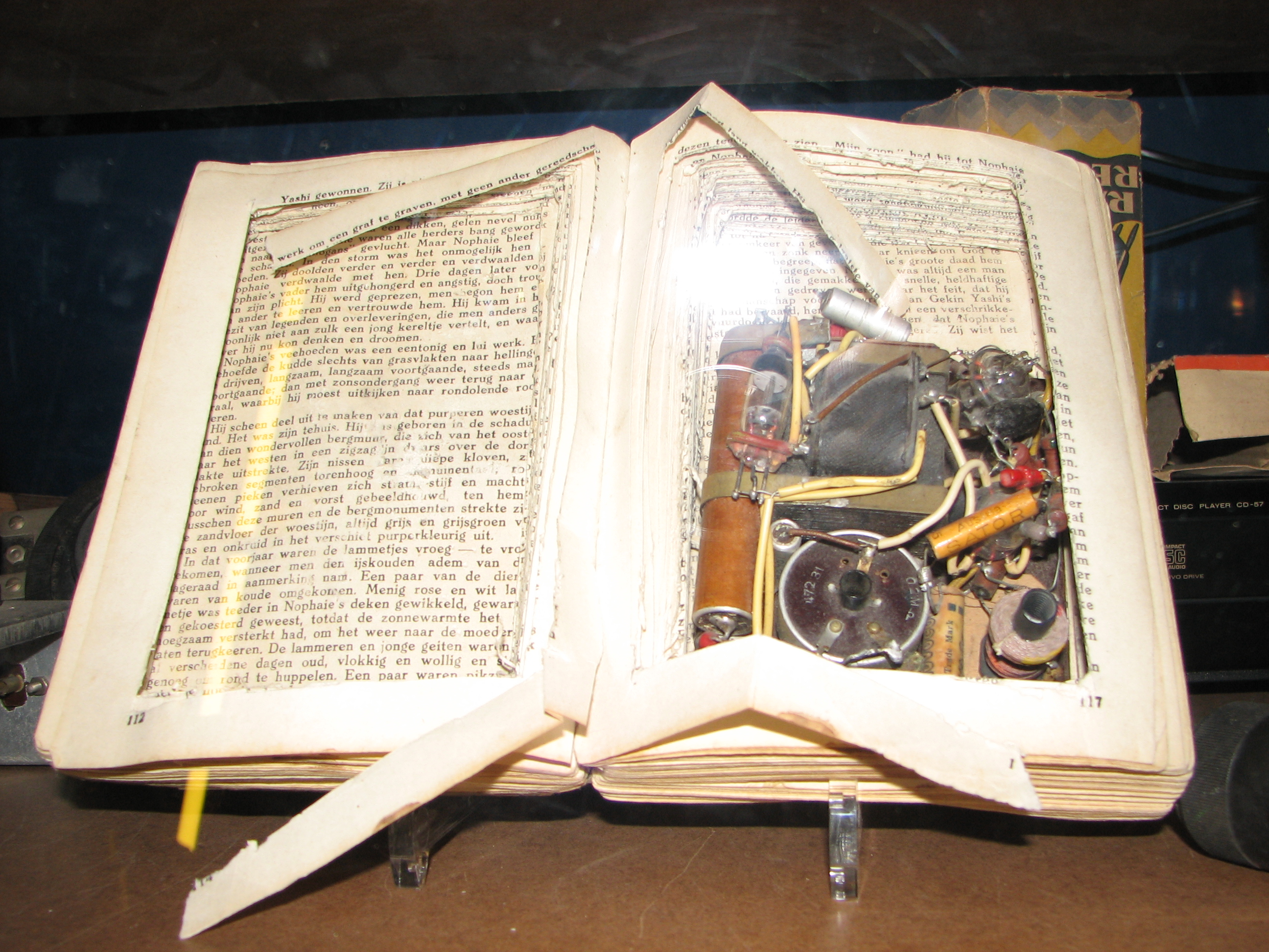 Radio hidden in a book (This was commonly done in WW2 to hide radios from the German occupiers